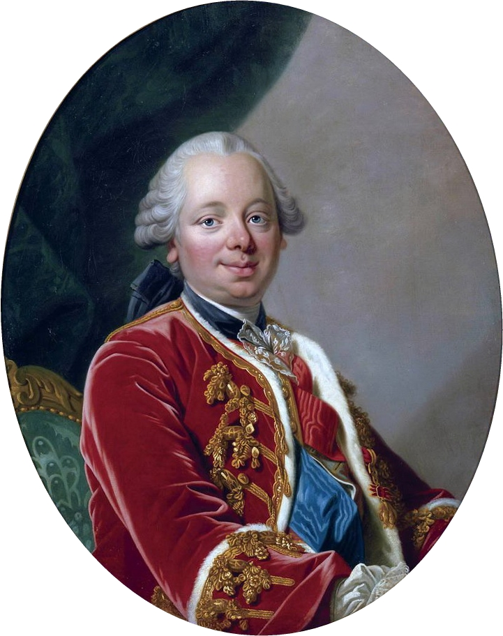 Portrait of Étienne-François de Choiseul (1719-1785)